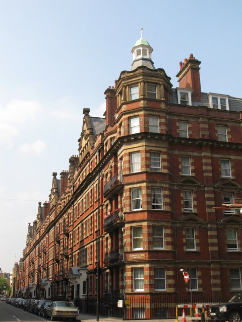 Clarence Gate Gardens, NW1 Mansion flats at the junction of Melcombe Street and Glentworth Street.